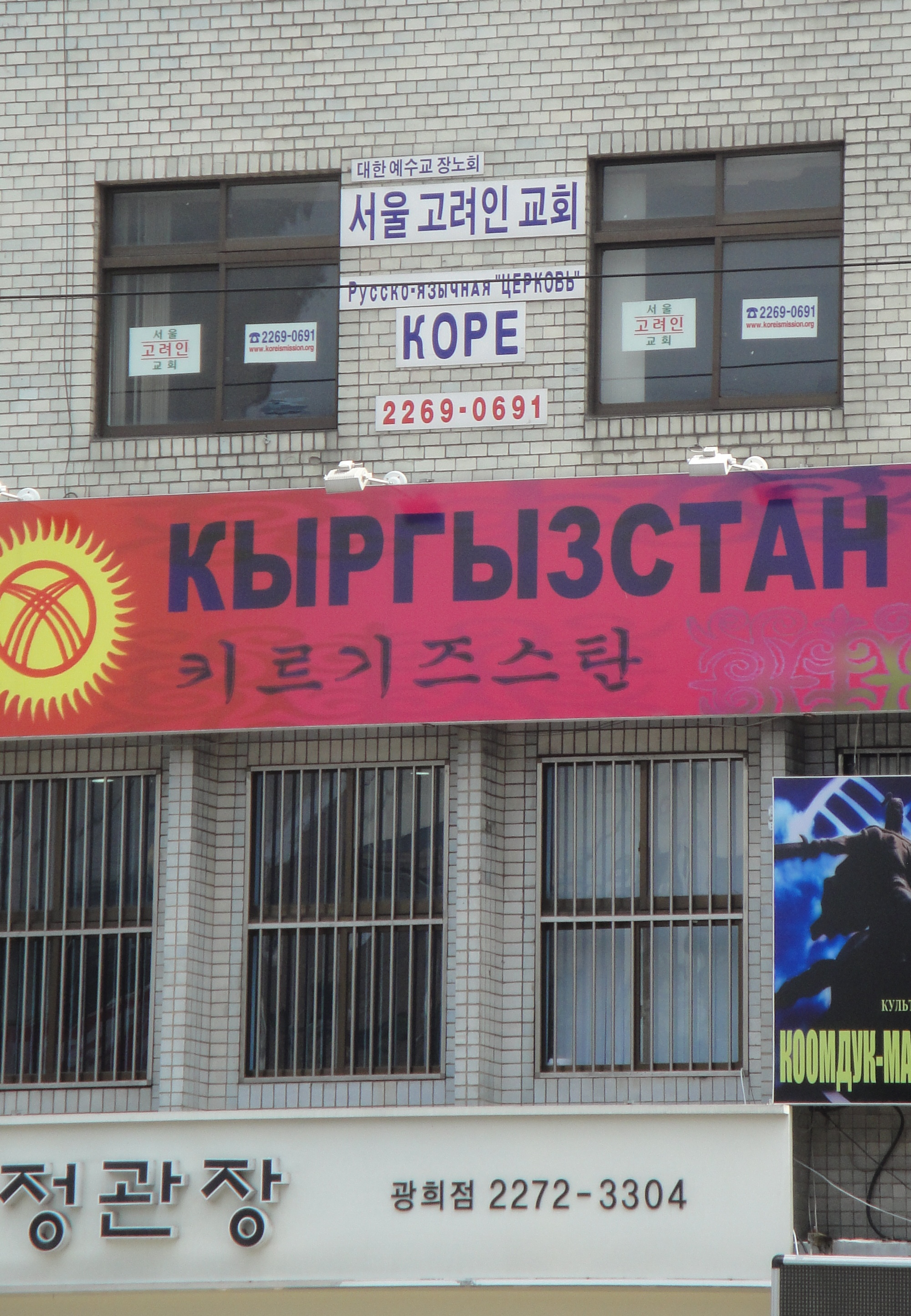 Gwanghui-dong, Jung-gu, Seoul. Russian-speaking Korean Presbyterian church and Kyrgyz restaurant.